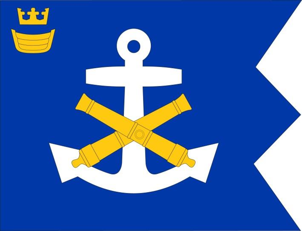 Flag of the Coastal Brigade, Finnish Navy